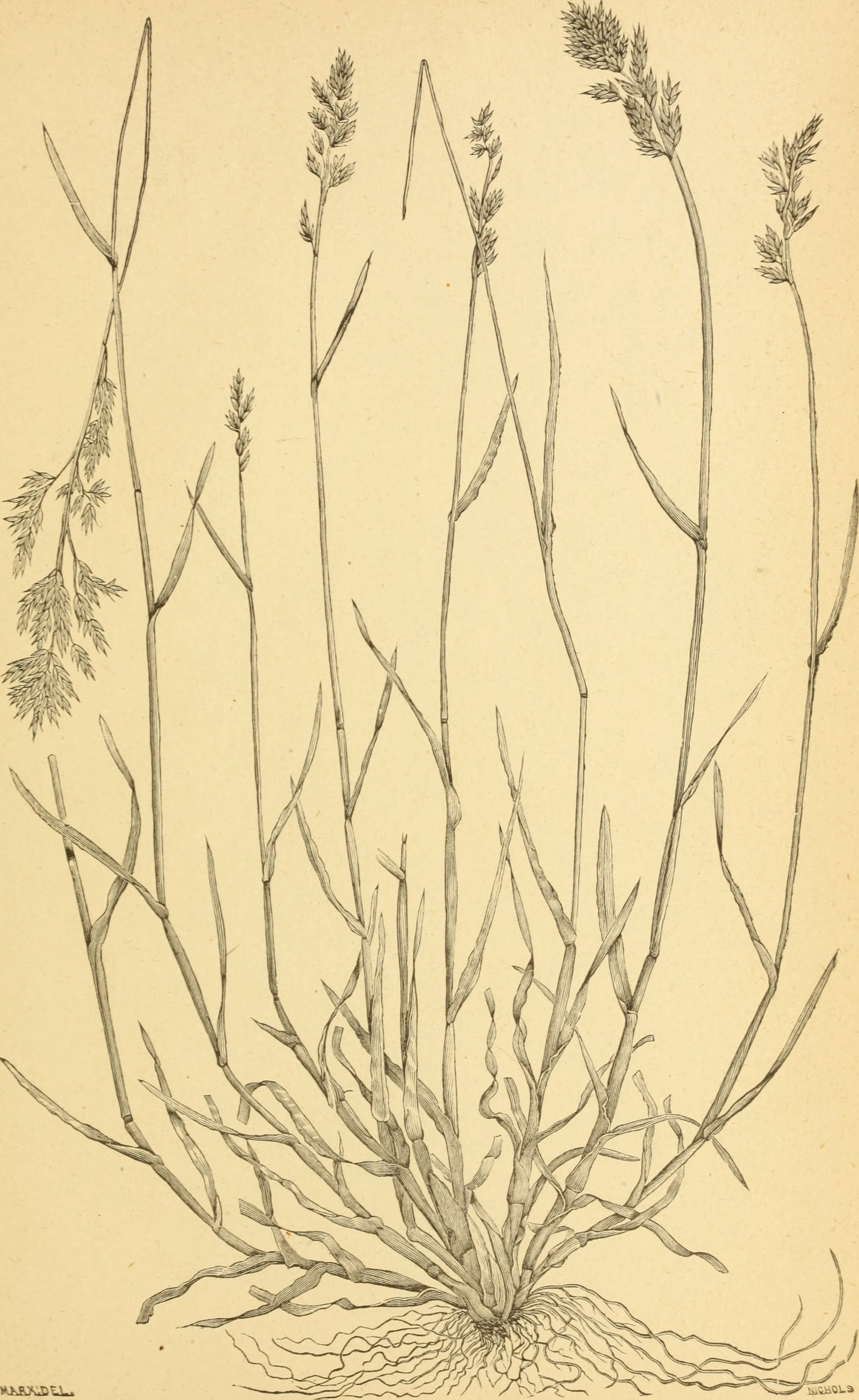 Title: The agricultural grasses of the United States Year: 1884 (1880s) Authors: Vasey, George, 1822-1893; Richardson, Clifford, 1856-1932; United States. Division of Botany; United States. Department of Agriculture Subjects: Grasses; Forage plants Publisher: Washington, D. C. : G. P. O. Text Appearing Before Image: Plate 99. Text Appearing After Image: POA COMPRESSA.